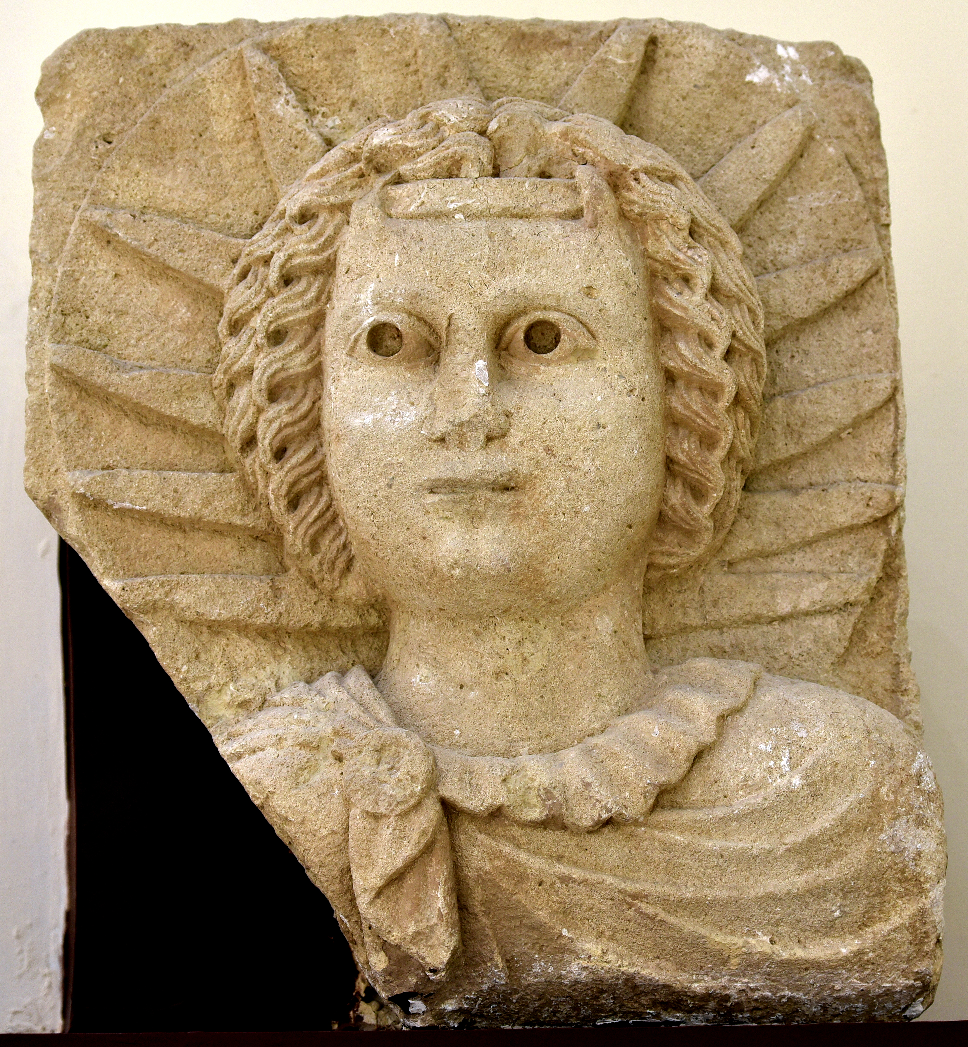 Alabaster slab depicting a male figure, en face. Behind his head, a large disc with radiating rays appear. The figure is Shamash, the god of divine justice, and the sun. From Hatra, Ninawa Governorate, Iraq. Parthian period, 2nd to 3rd century CE. On display at the Iraq Museum in Baghdad, Iraq.